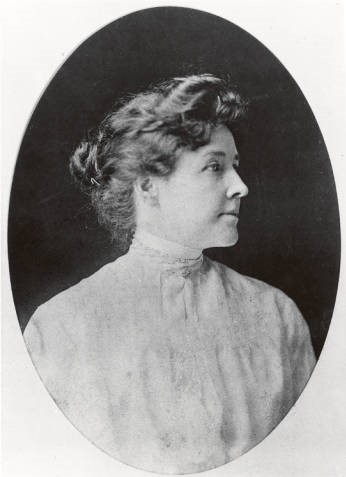 Portrait photograph of Juliet V. Strauss, journalist and conservationist